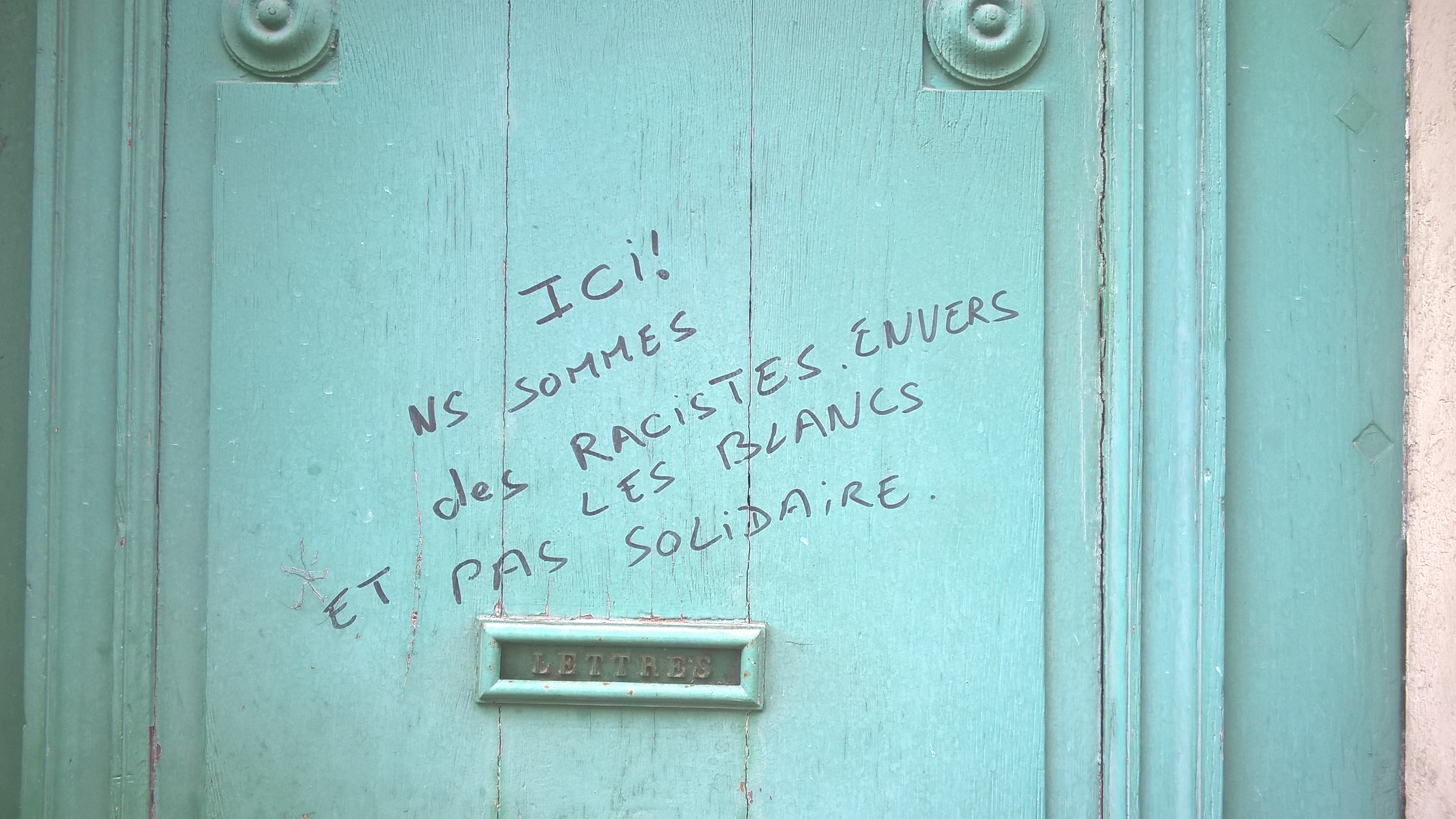 Graffiti on a door. The text is : Here we are racists against white people and do not stand in solidarity